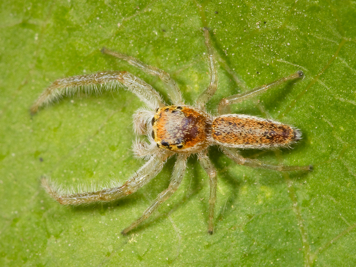 Adult male Hentzia mitrata jumping spider found at Shelby Bottoms Park in Nashville, Tennessee. Body length: 3.9 mm.